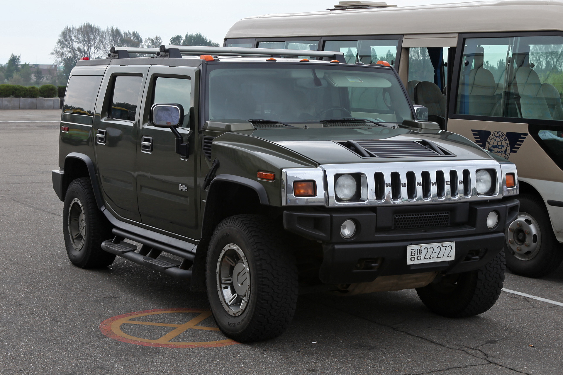 Ordinary people cannot own cars. All the cars are state or army owned. But, surprisingly, sometimes you can see cars like this... Hummer, or brand new Lexus..